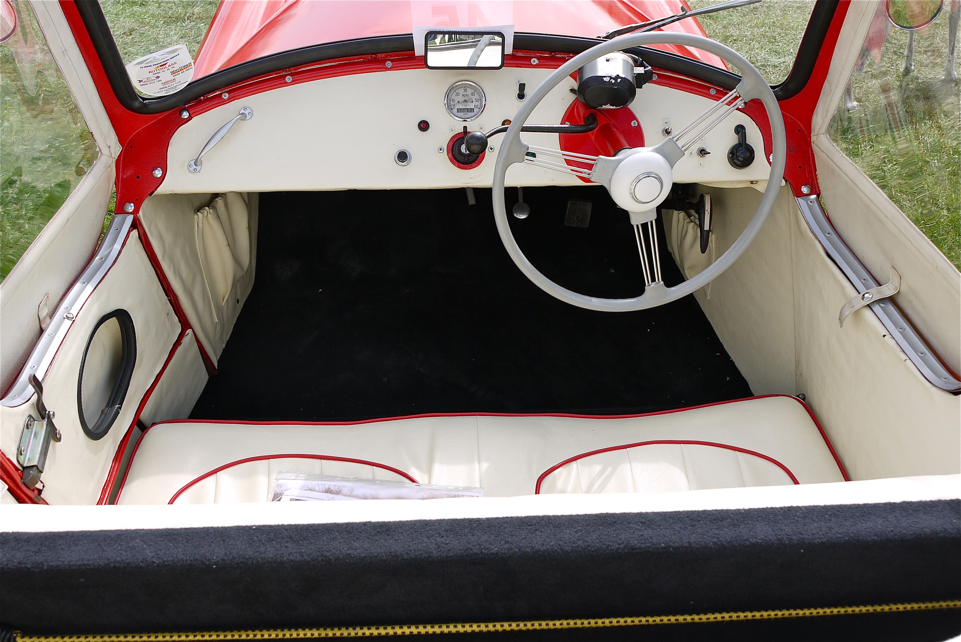 Panasonic G1 14-45 Lens